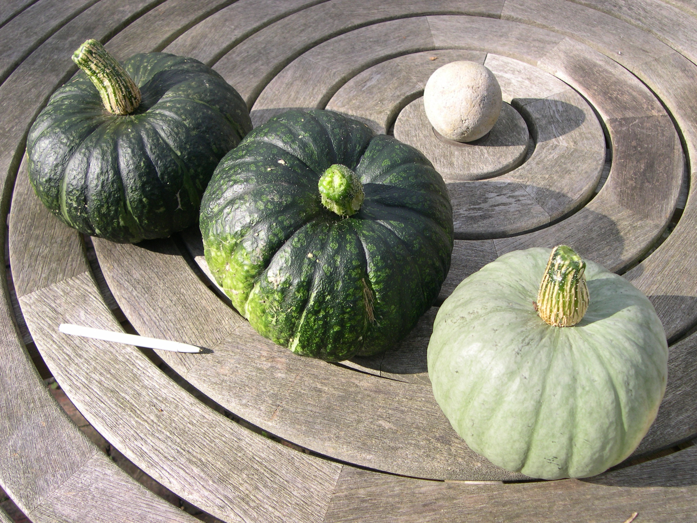 1st kabocha harvest, showing 3 varieties of Kabocha, a pumpkin group of the species Cucurbita maxima